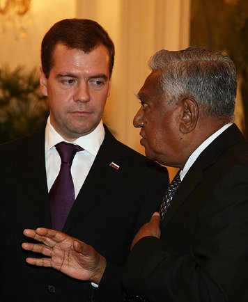 SINGAPORE. With President of Singapore Sellapan Ramanathan.